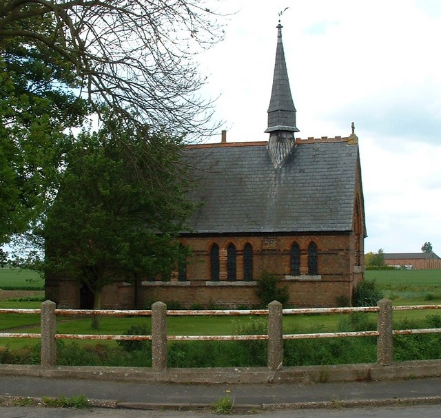 St Polycarp's parish church, Holbeach Drove, Lincolnshire: built in the 19th century beside Lambert Drain